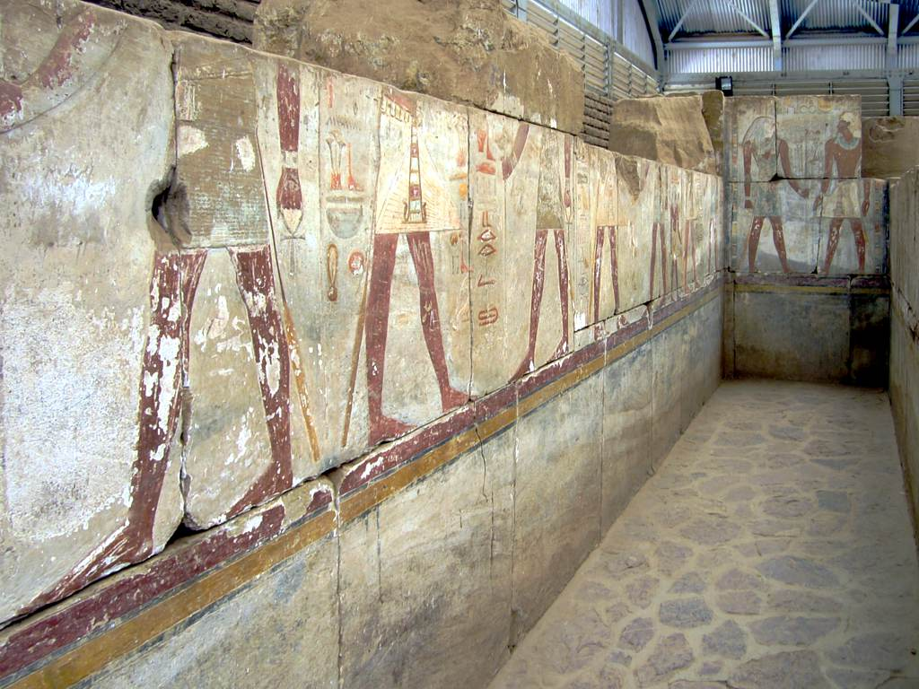 Buhen Temple was rescued from the rising waters of Lake Nasser in the 1960s and reconstructed at the Sudan National Museum in Khartoum, Sudan. The paintings date from the reign of Queen Hatshepsut (1473-1458 BC).